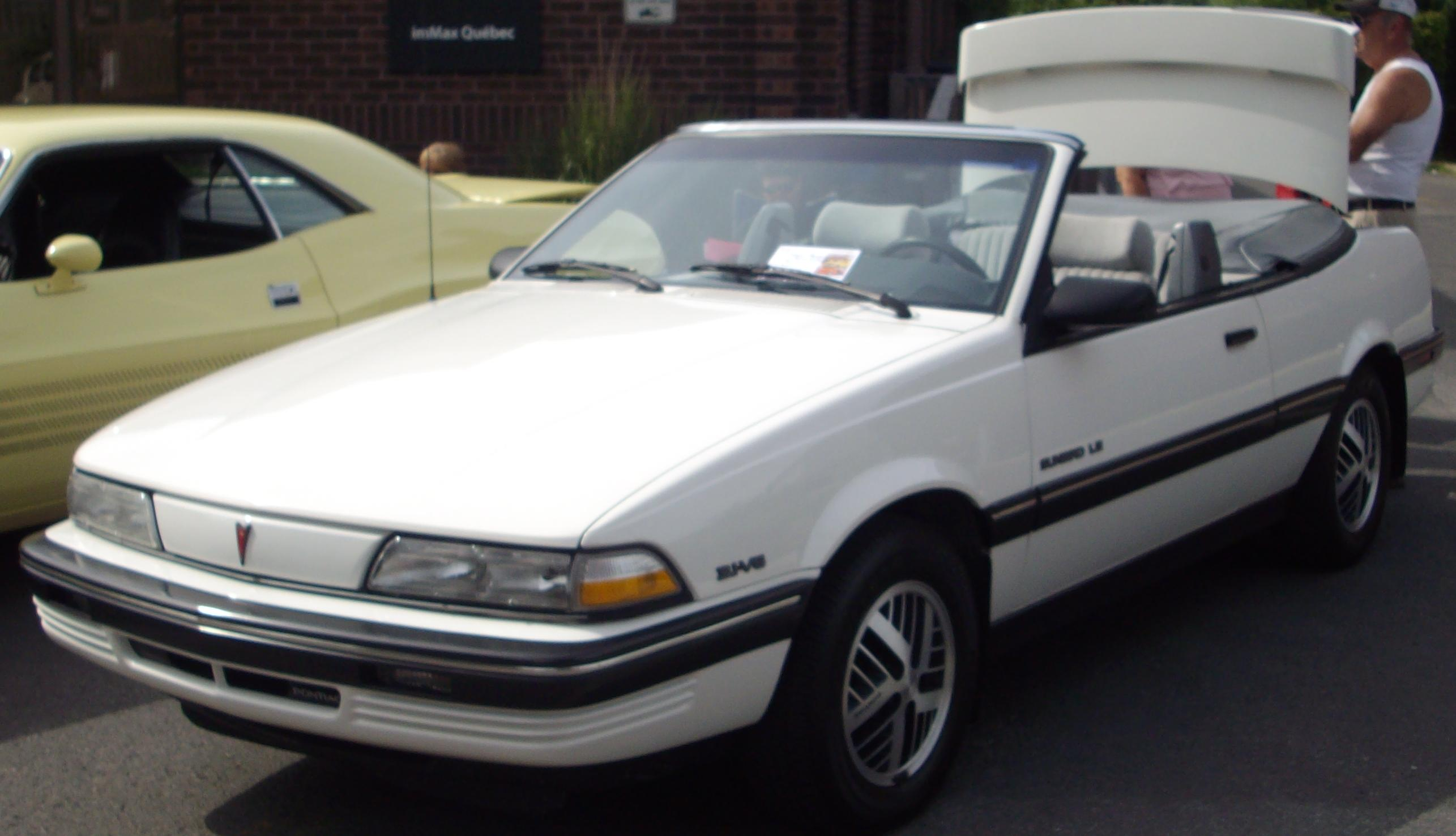 1991 Pontiac Sunbird LE Convertible photographed in Ste. Anne De Bellevue, Quebec, Canada at Cruisin' At The Boardwalk 2012.